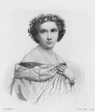 Belgian opera singer Désirée Artôt (1835-1907) by August Weger (1823-1892) after Auguste Hüssener (1789-1877).